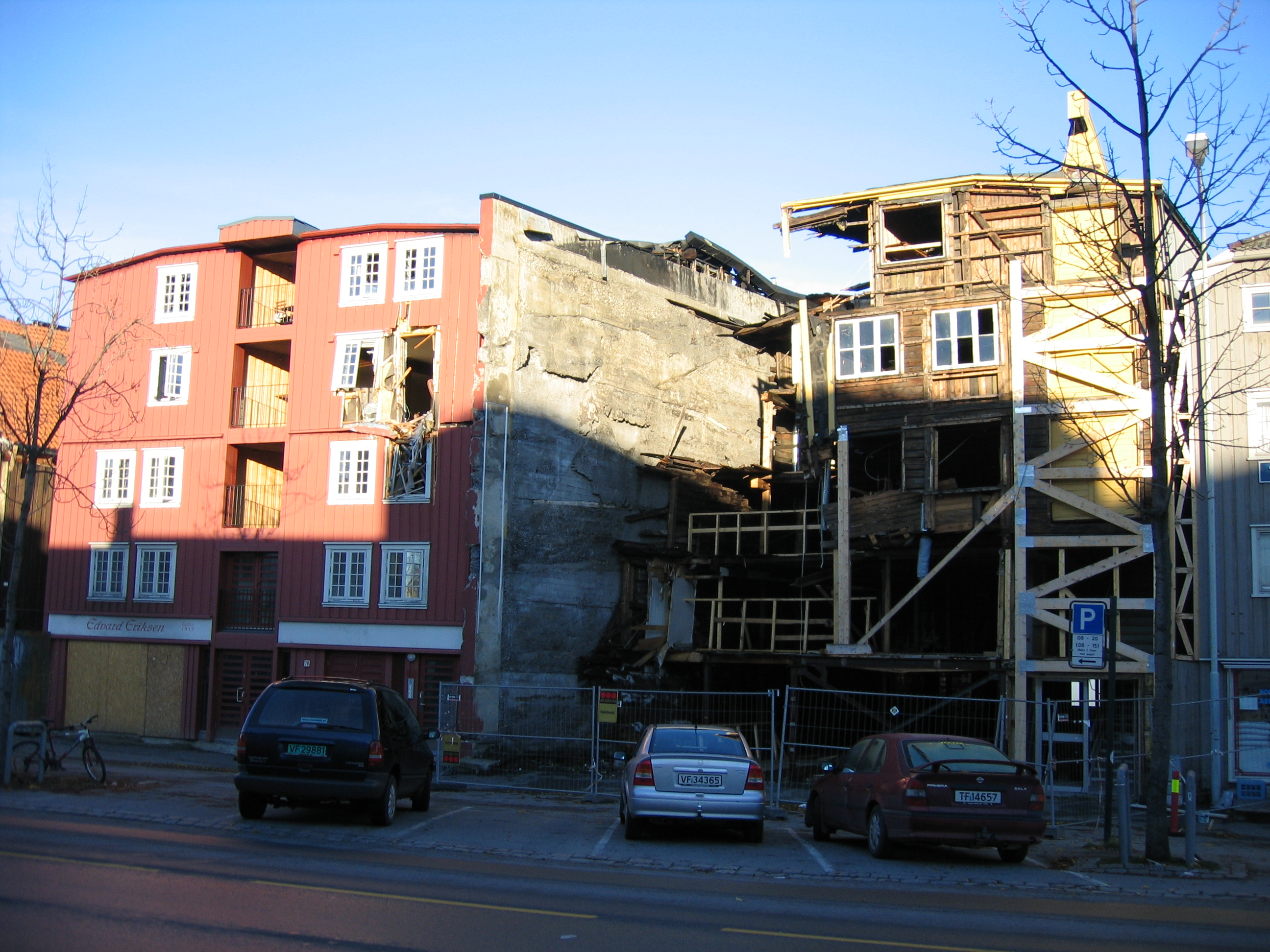 Fjordgata in Trondheim, Norway after a fire in 2007.